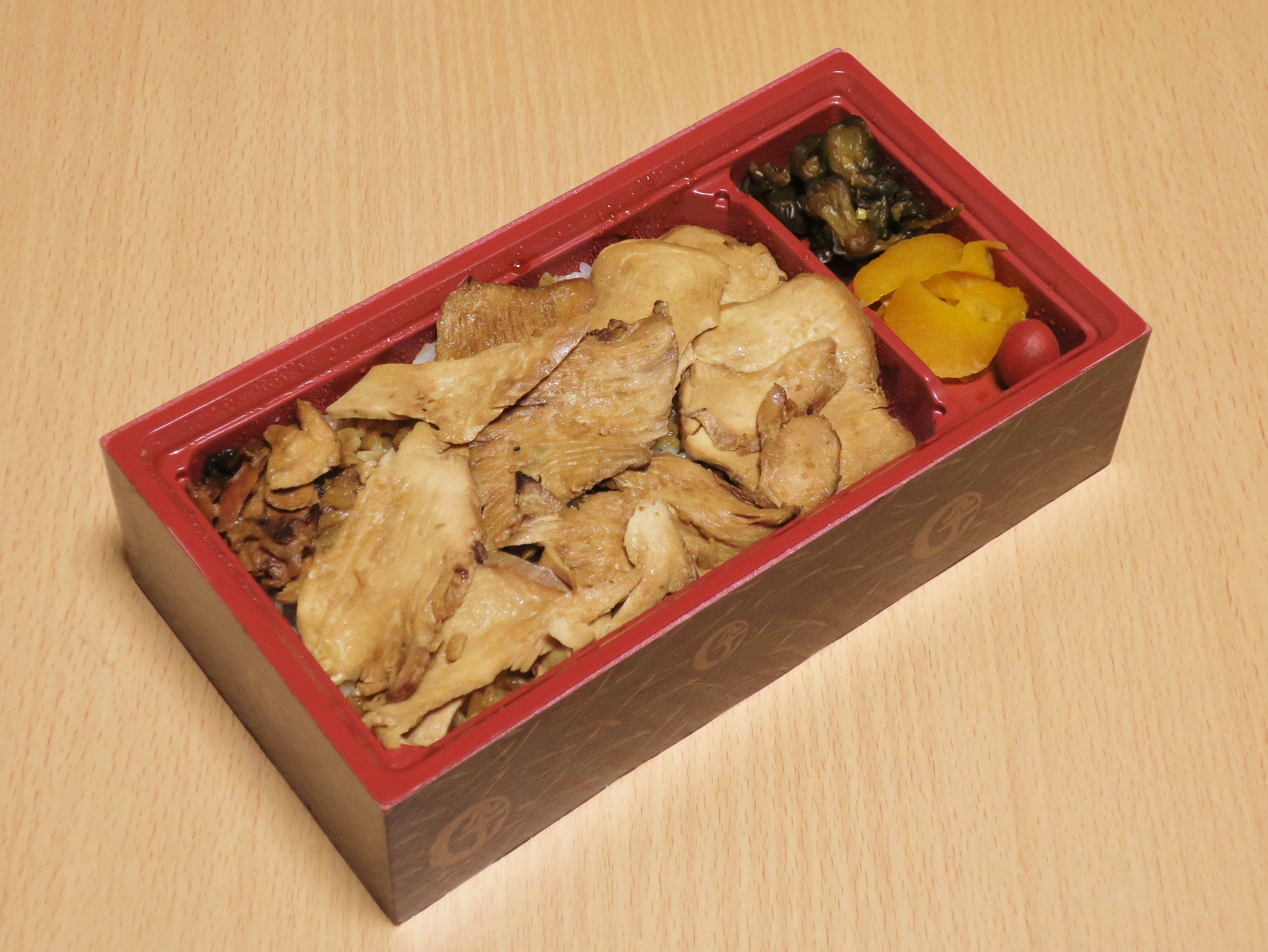 Torihei Jōshū Goyō Torimeshi Take Bento.